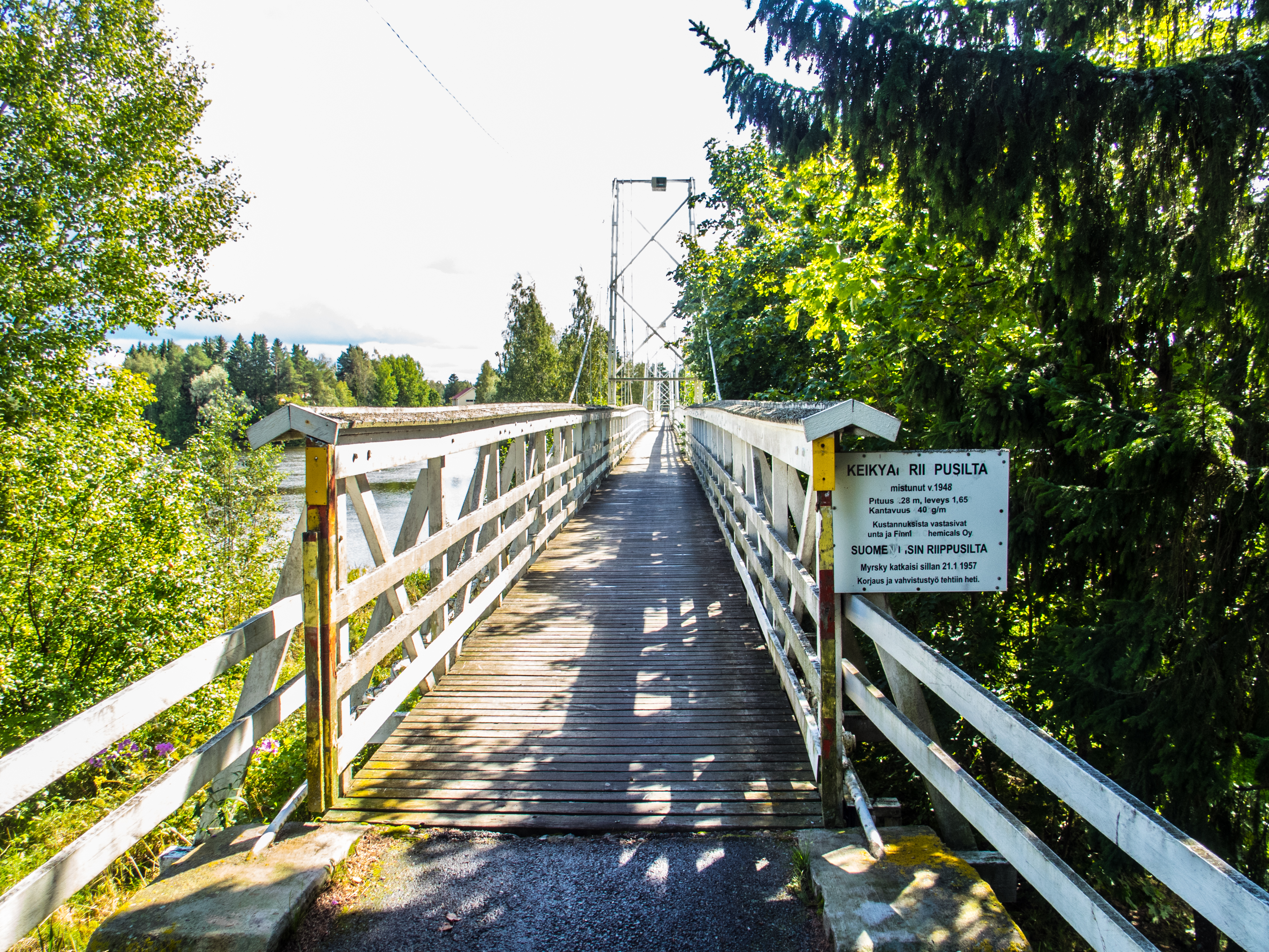 Finland's longest suspension bridge across the Kokemäenjoki river. For pedestrians and bicyclists only.